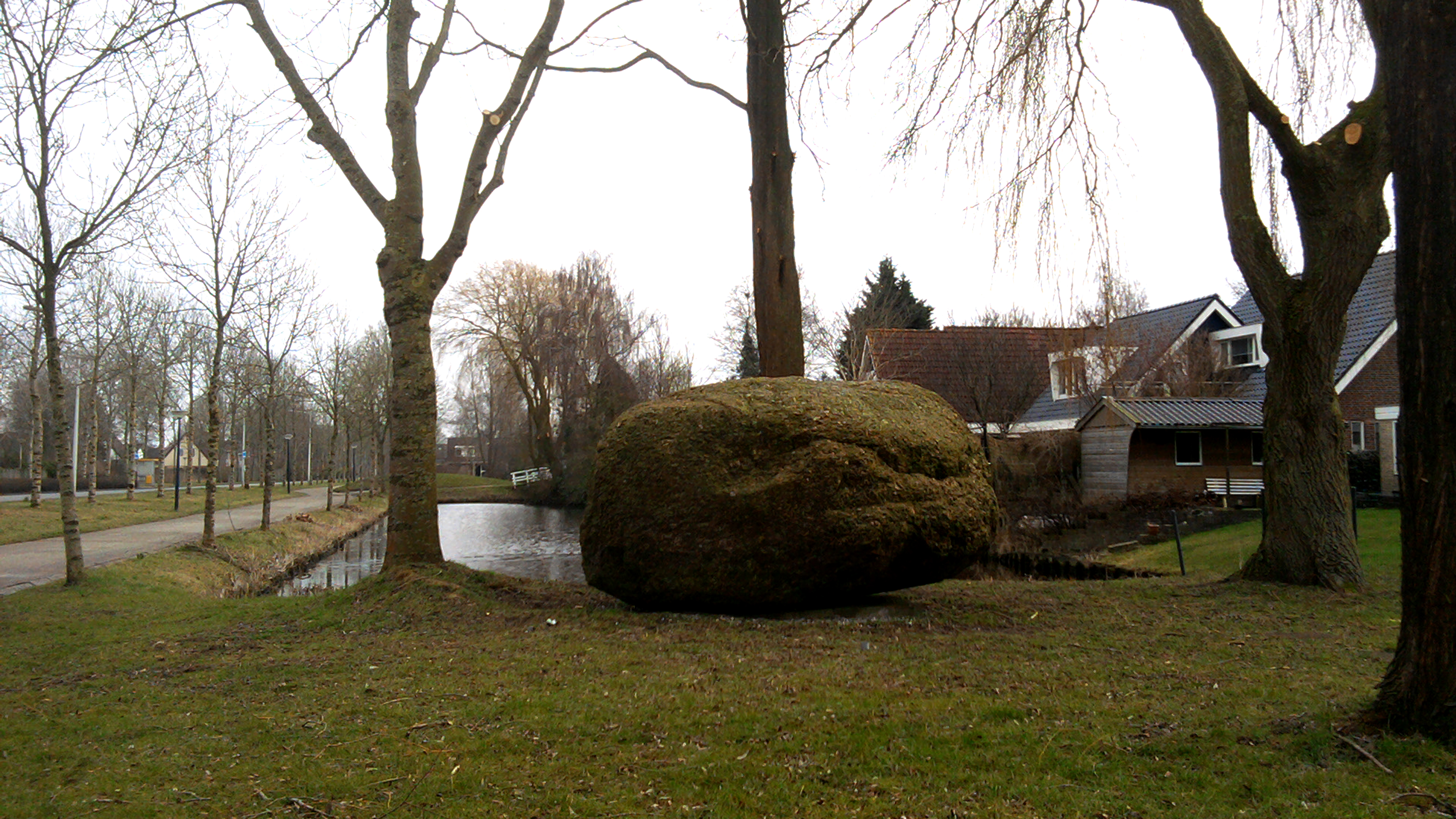 Town of Joure, Schepenkwartier. Rock placeed at the corner of Haskerveldweg and Sloep. The rock was taken to this region from Scandinavia in the ice age.